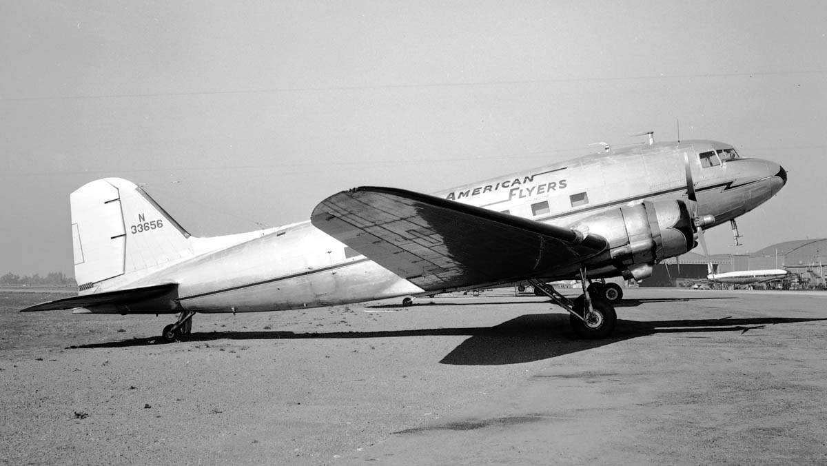 Oakland, California, April 1952. Tonight I am going to post six DC-3's in honor of its Anniversary.